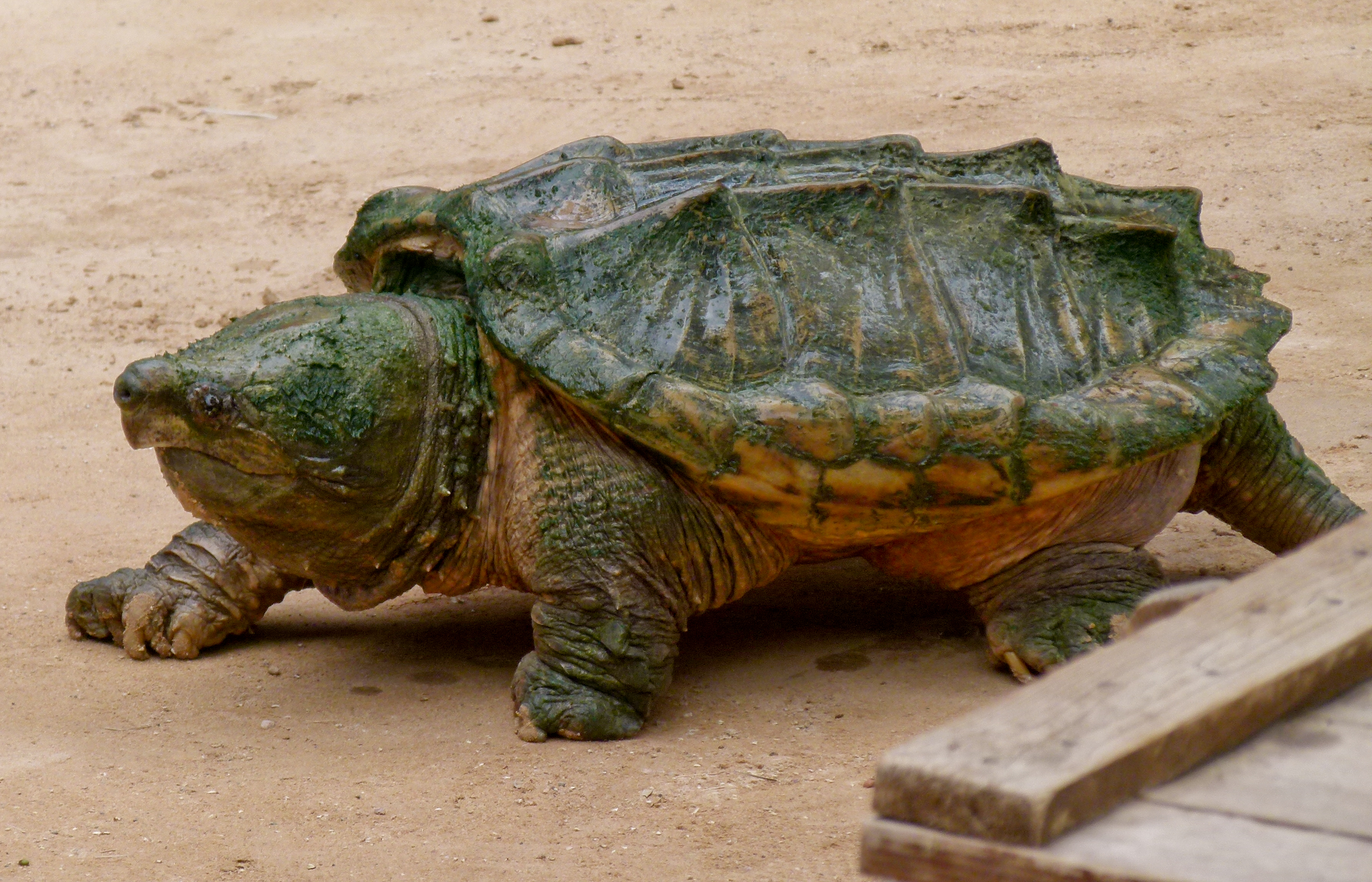 Alligator snapping turtle (Macrochelys temminckii) in the Oasis Park, La Lajita, Pájara, Fuerteventura, Canary Islands, Spain